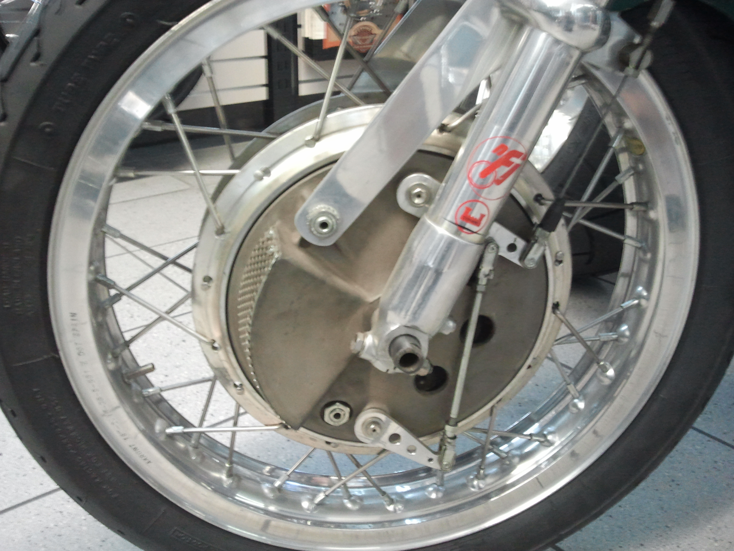 In-Air-Double-Duplex-Brake of the Aermacchi Worksracer 1968